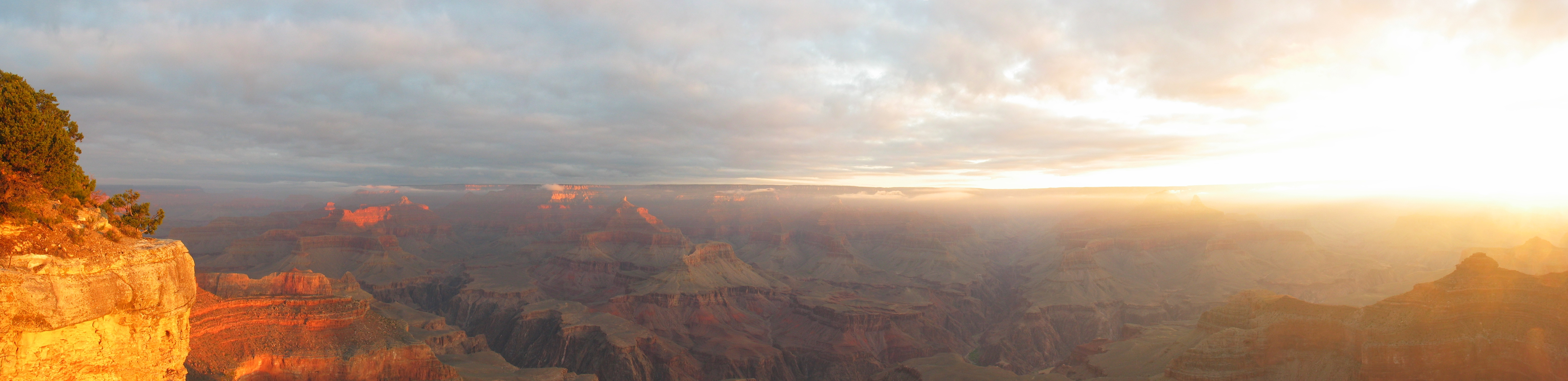 Sunrise at Grand Canyon, panoramic image taken by Dschwen on April 3rd 2004.